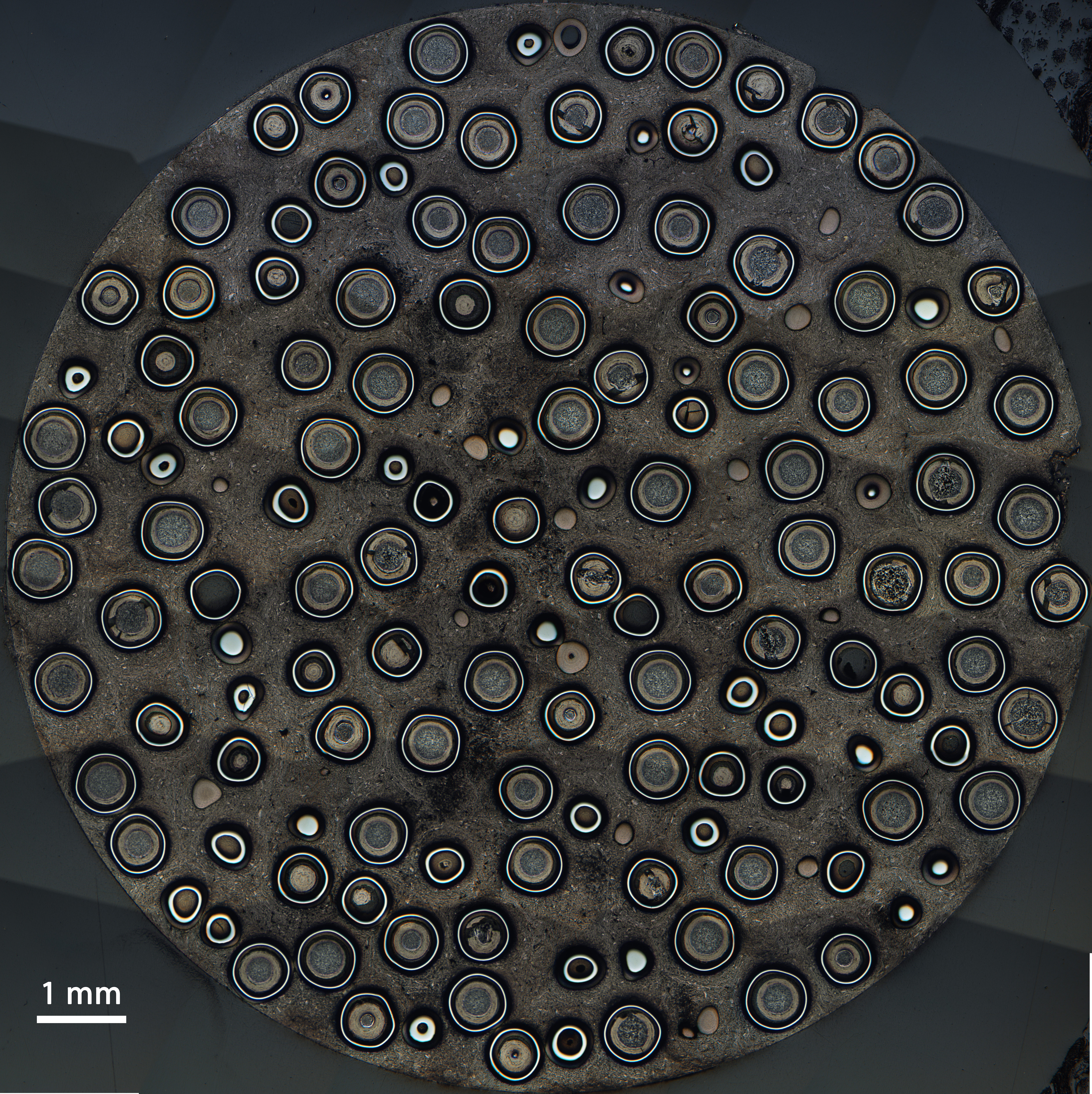 Cross-section of a fuel pellet containing TRISO particles at 10mm scale.